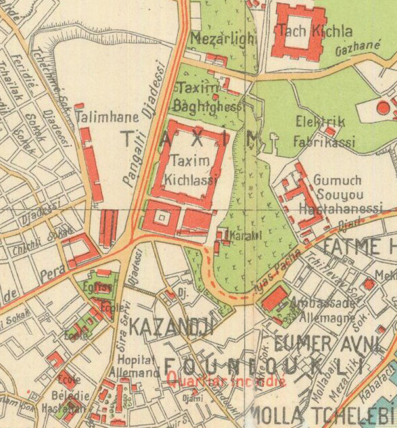 Detail of File:Istanbul PU971.jpg, showing the Taksim area including the Taksim Military Barracks (“Taxim Kichlassi”) in 1922.